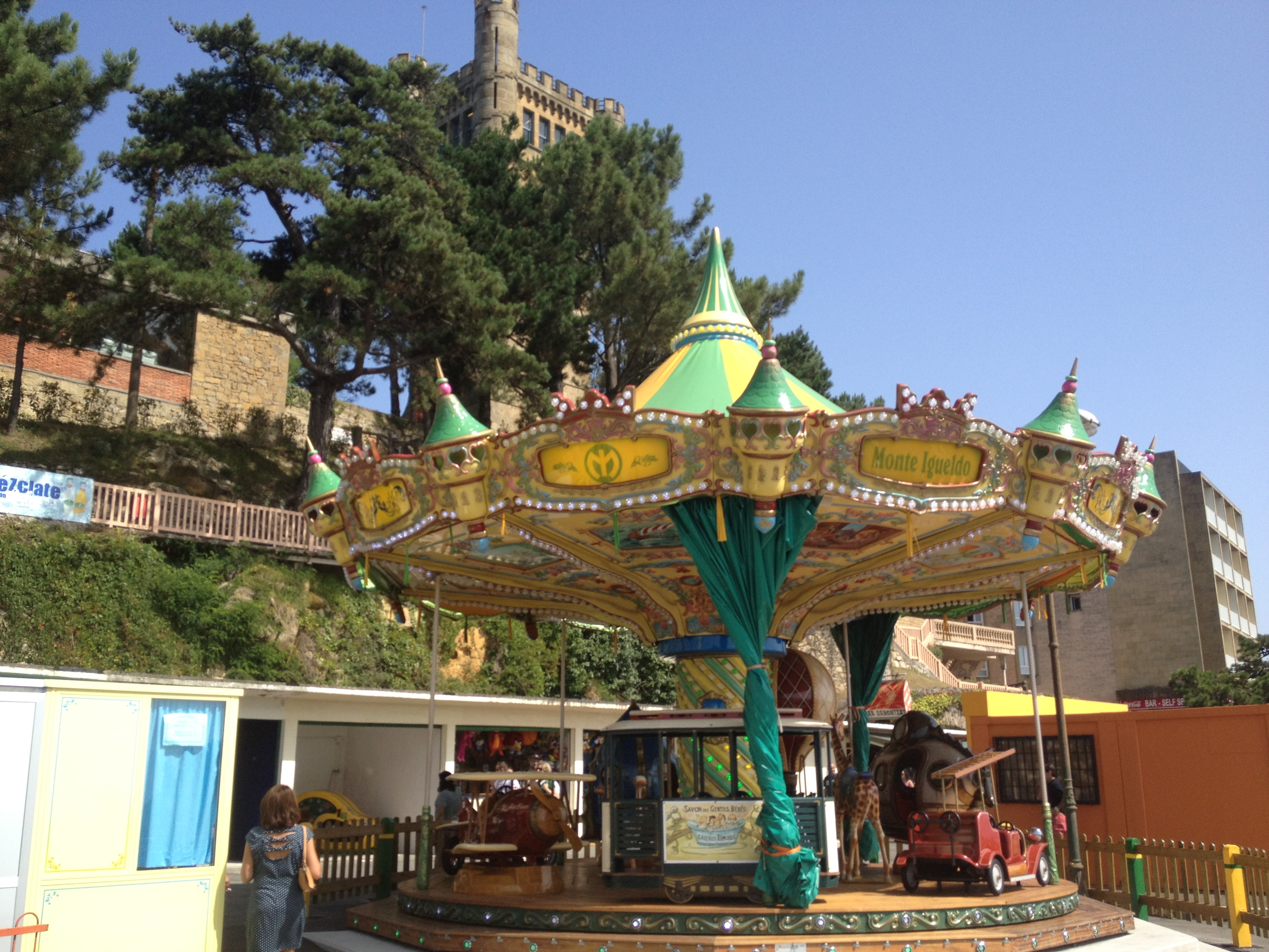 Igueldo Amusement Park in San Sebastian